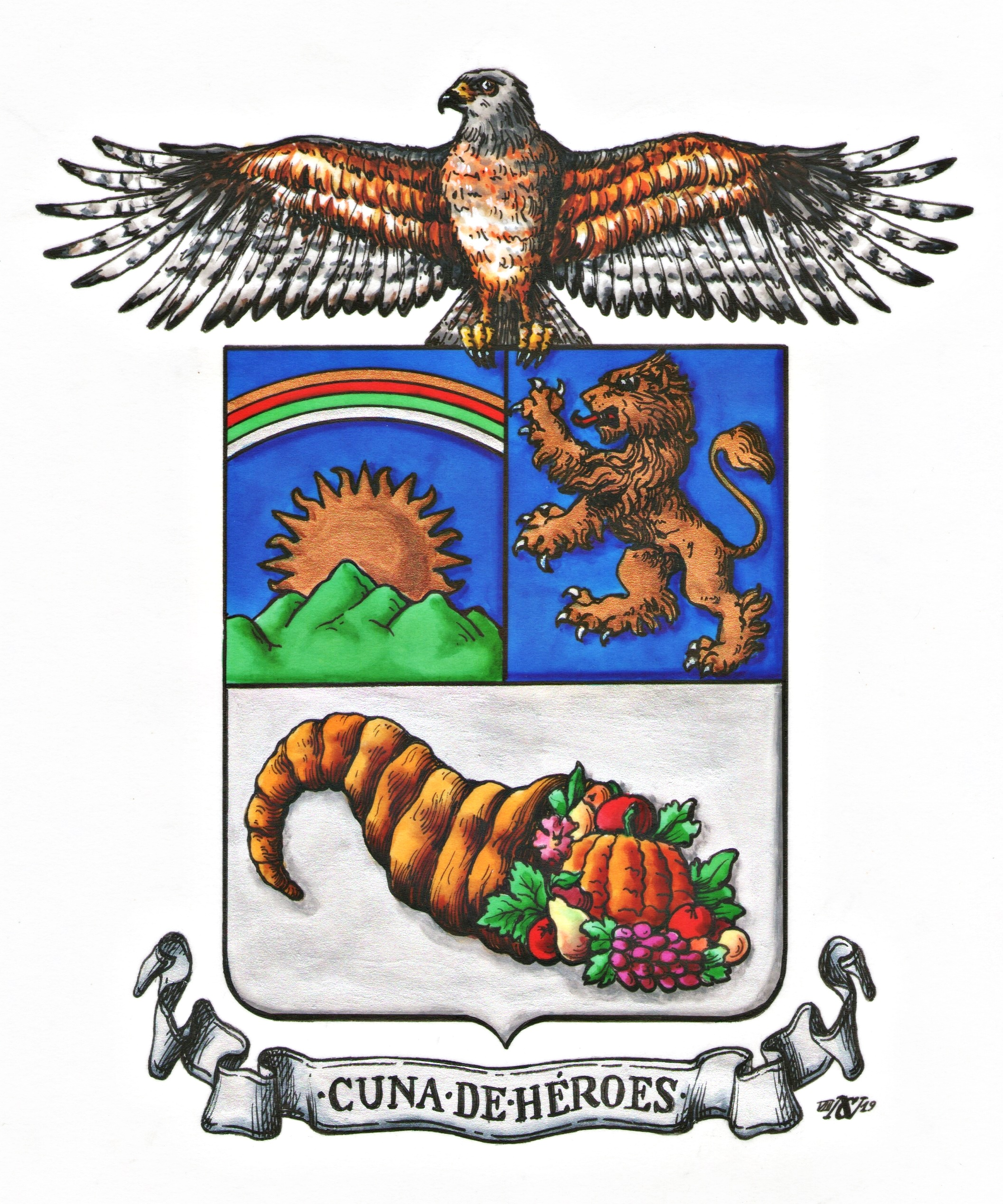 Coat of Arms of the city of Moca, DR. By Carlos Navarro and Lowell Bilandy Santos, 2019